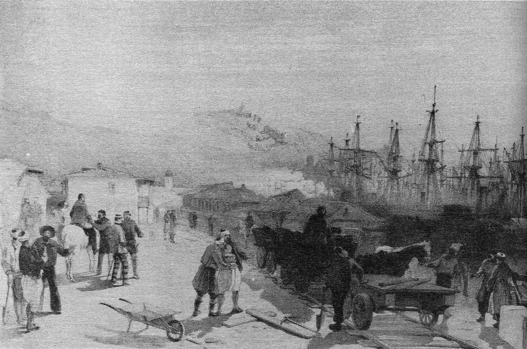 the Grand Crimean Central Railway at Balaclava